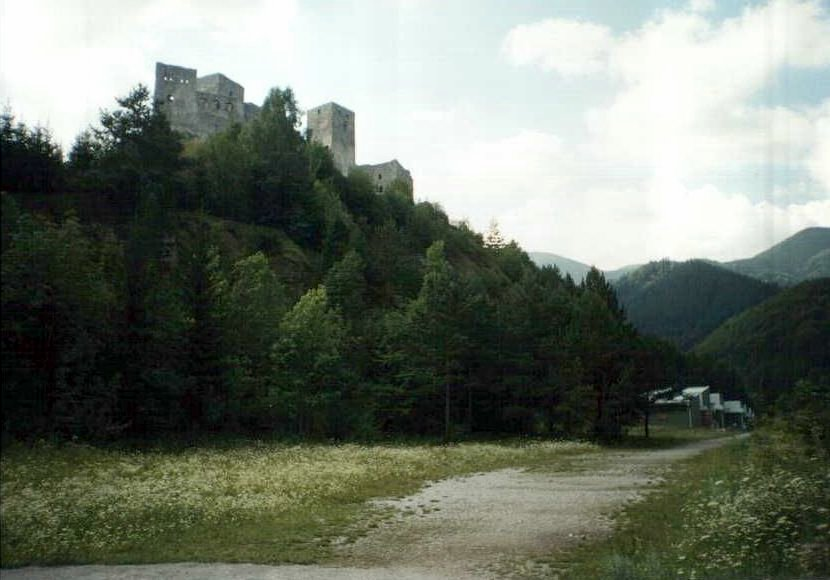 Author: Wojsyl